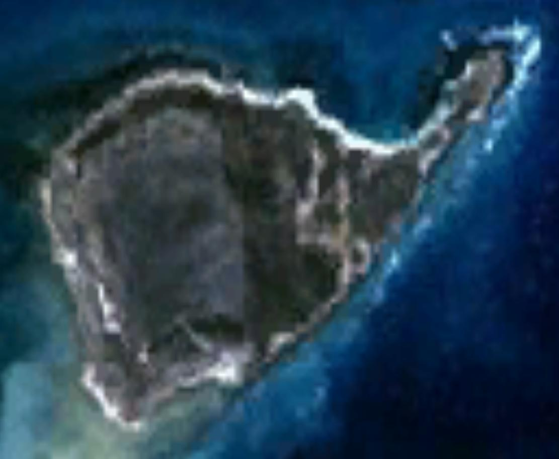 This is a satellite image of East Wallabi Island in the Houtman Abrolhos.